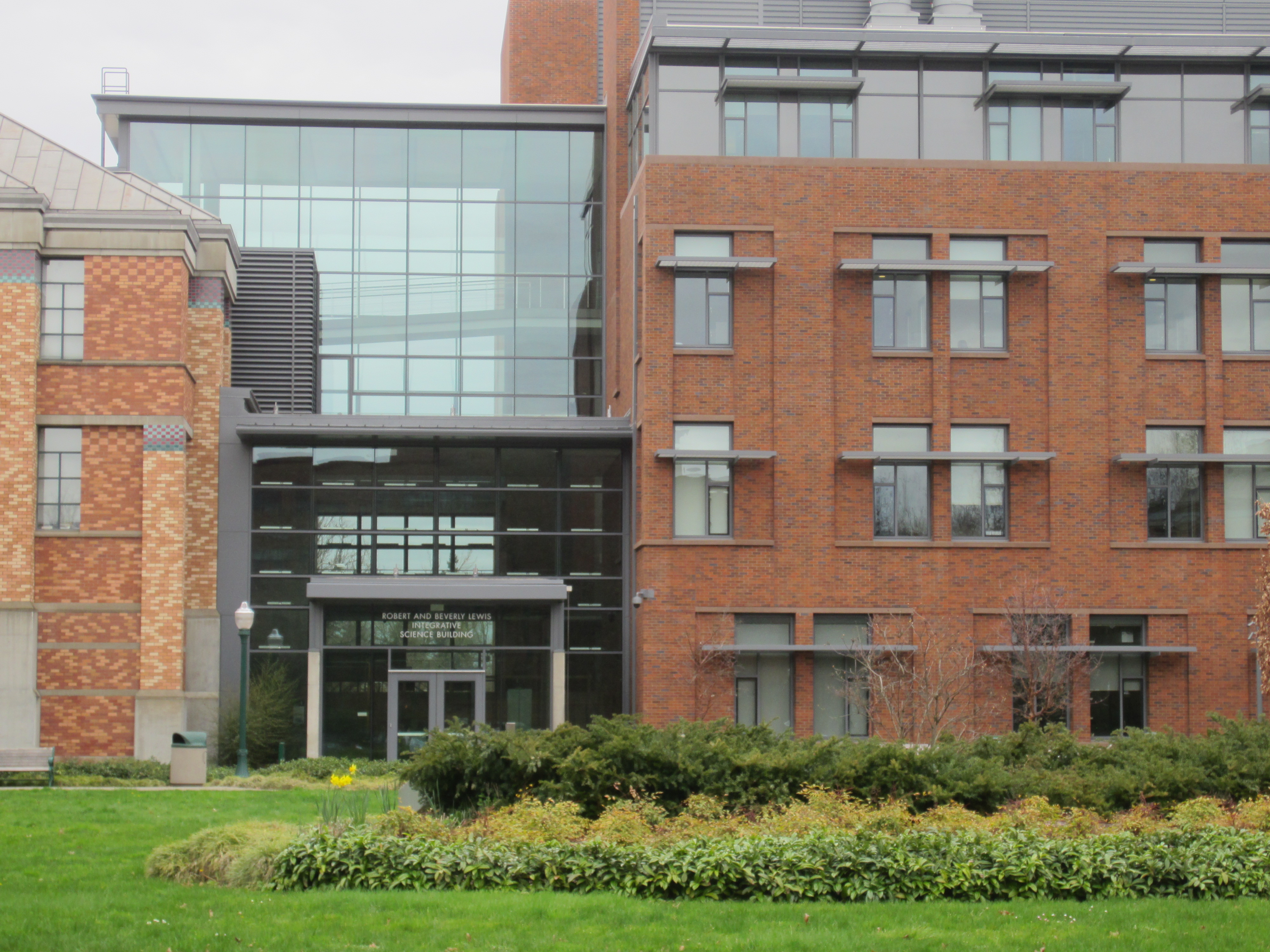 Integrative Science Building, University of Oregon (2014)